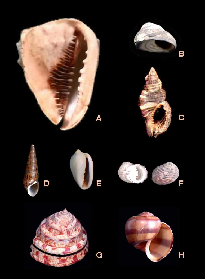 Plate with various shells of gastropods. DIVERSIDAD DE PROSOBRANCHIA